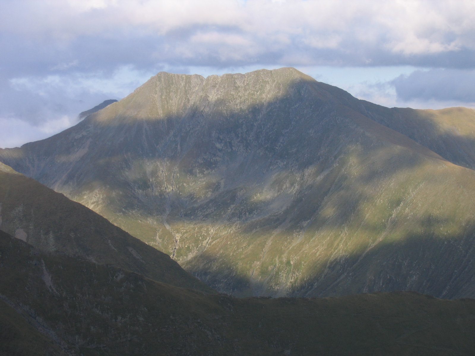 Highest in the country 2544m Fagaras mountains Romania